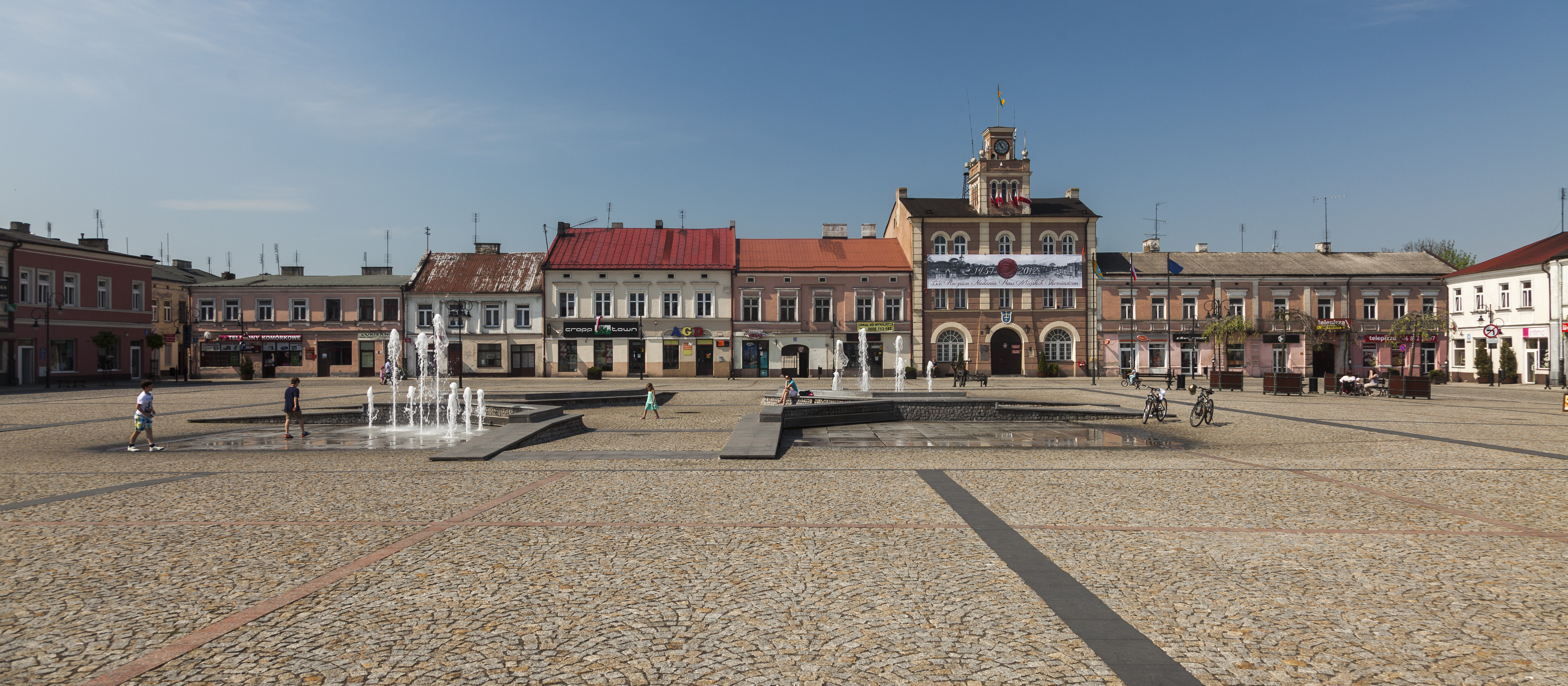 Market place in Skierniewice, Poland.